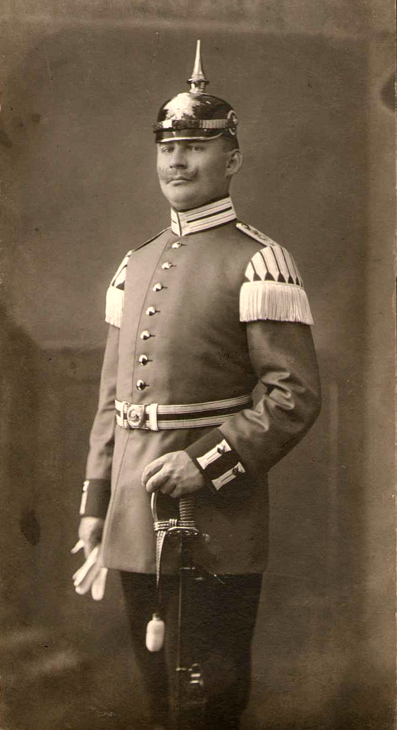 Portrait of Max Feiereis by Klinkhardt & Eyssen (1882–1960)